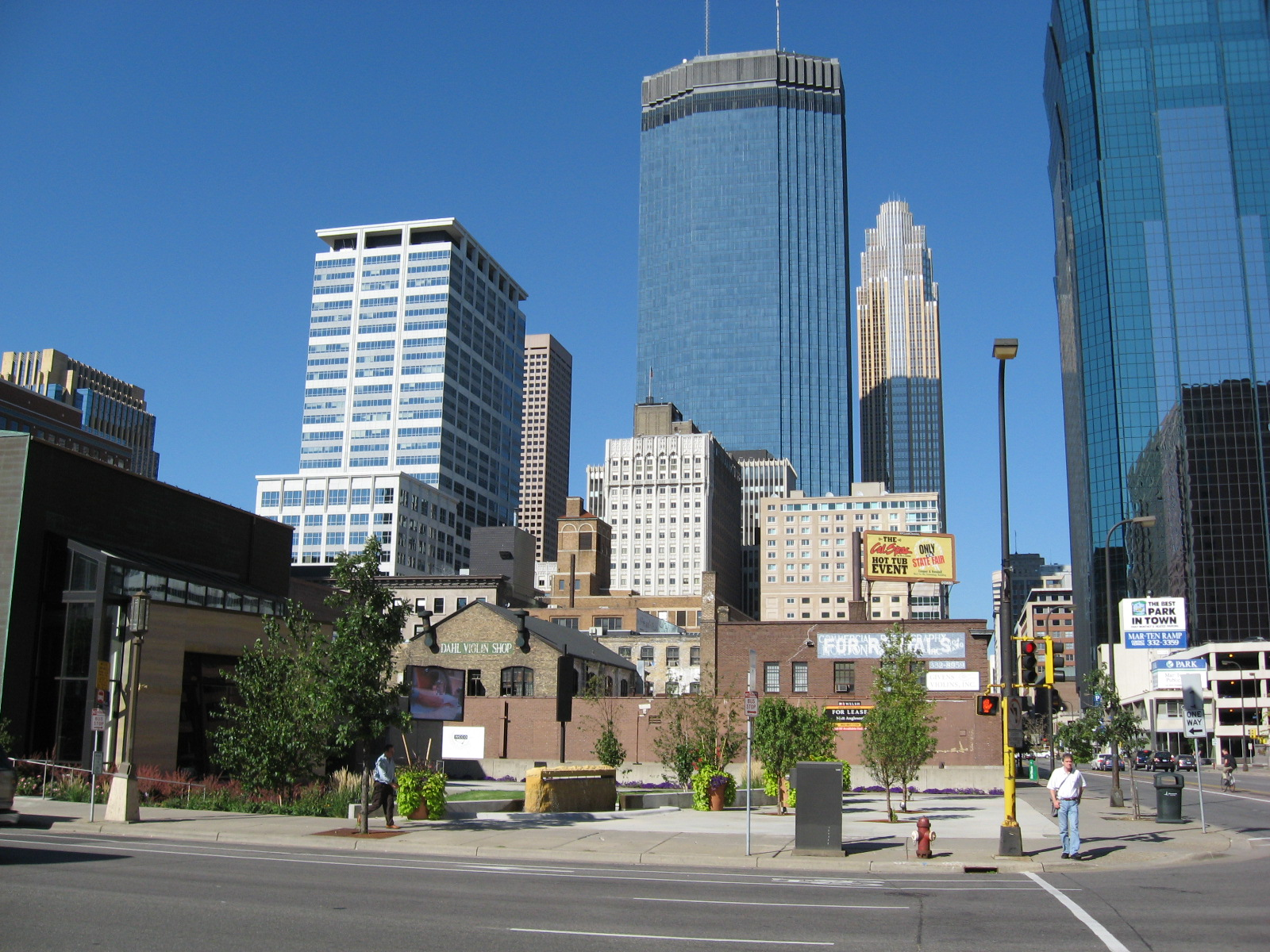 The Minneapolis skyline seen from South 11th Street, with the WCCO-TV building and the Handicraft Guild Building ("Dahl Violin Shop") in the foreground.